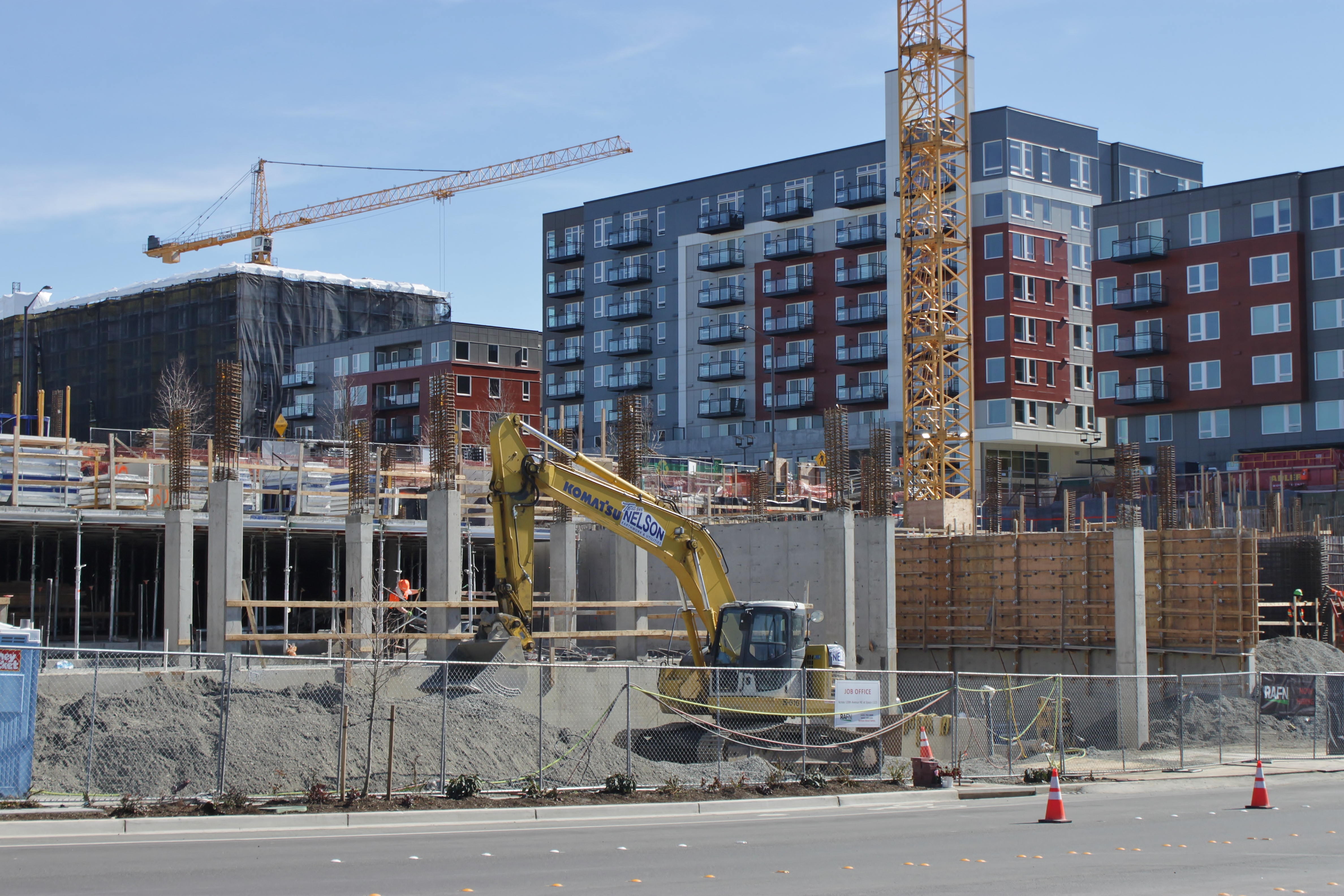 Construction of apartment buildings in the Spring District in Bellevue, Washington.